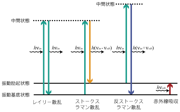 Vibrational Raman, Reiliegh Scattering and Infrared Absorption Processes in Japanese. 振動ラマン散乱・レイリー散乱・赤外線吸収の光学過程